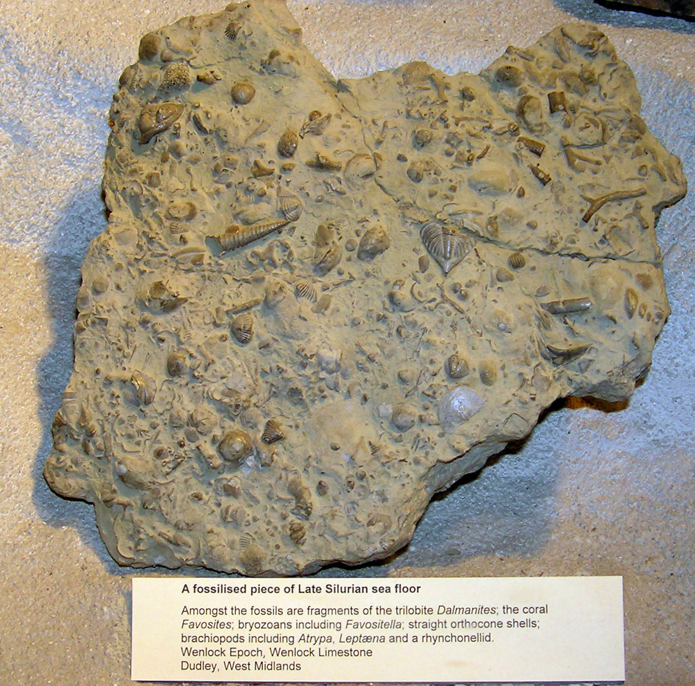 Fossilised Late Silurian sea floor, on display in Bristol City Museum, Bristol, England. Found in the Wenlock limestone, Dudley, West Midlands, England.